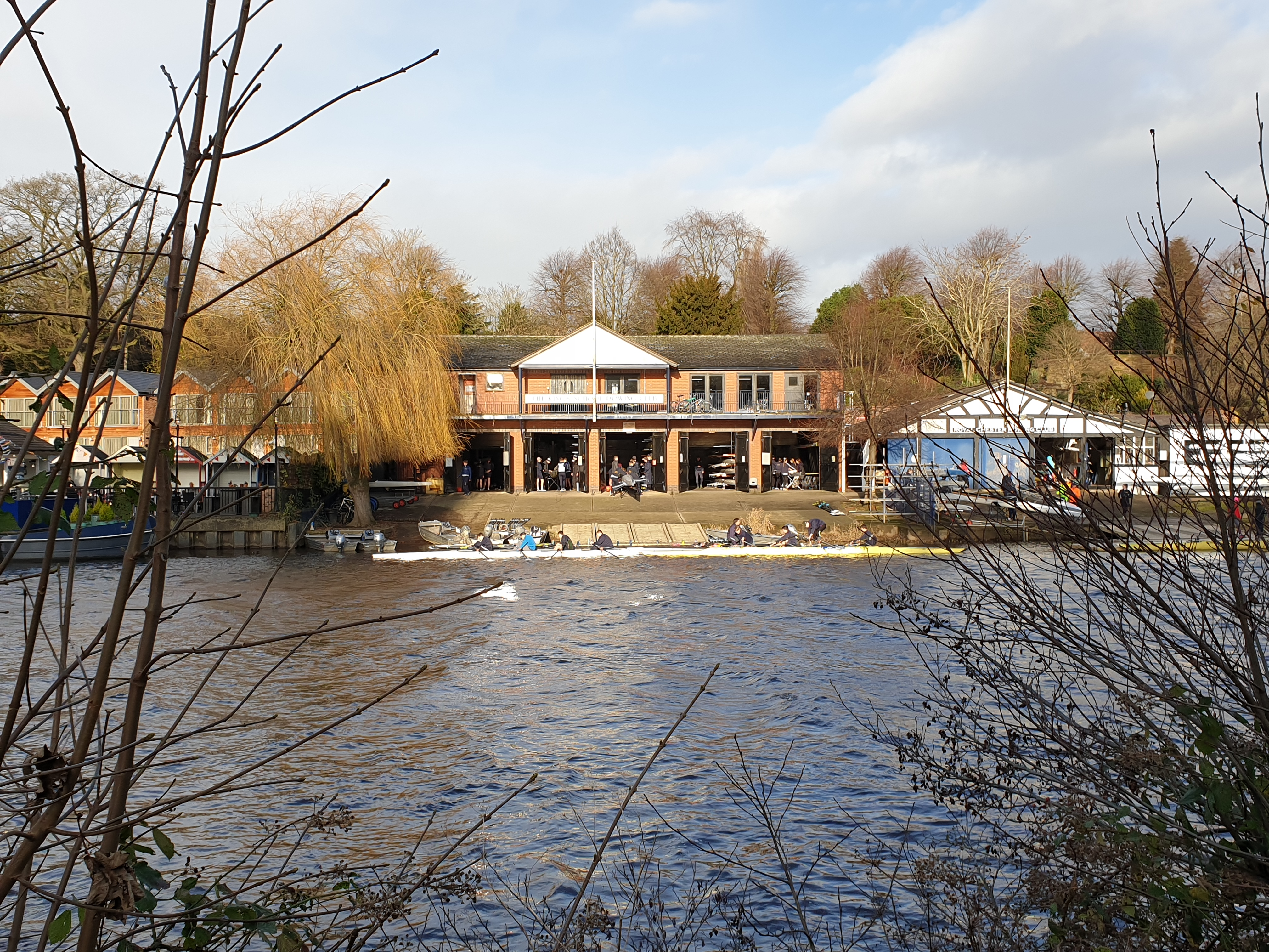 Kings Chester Boat House from the Meadows side of the River Dee